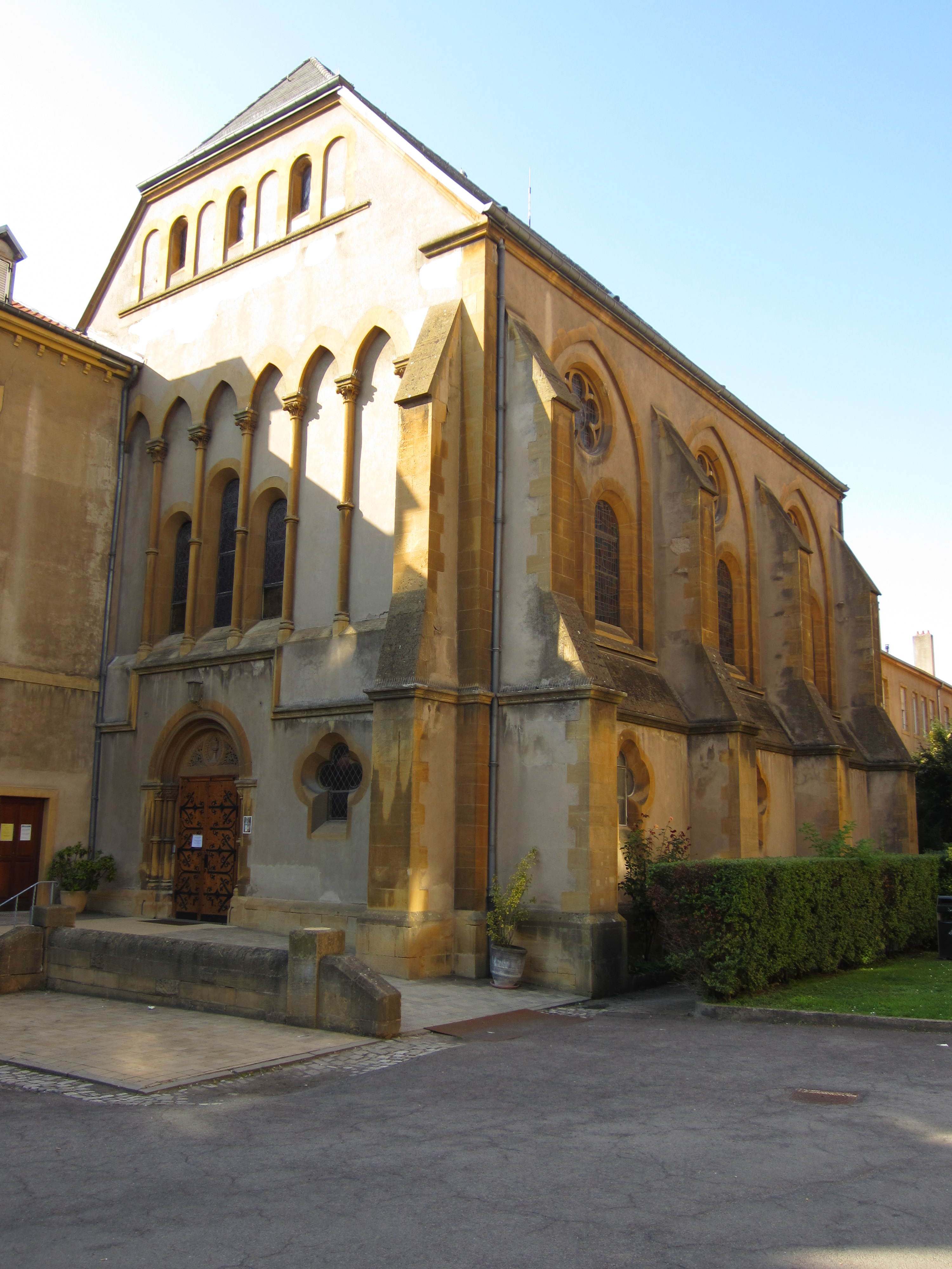 Description chapelle ste blandine Metz Date23 November 2011Sourcemon appareil photoAuthorAimelaimePermission (Reusing this file) chapelle ste blandine Metz